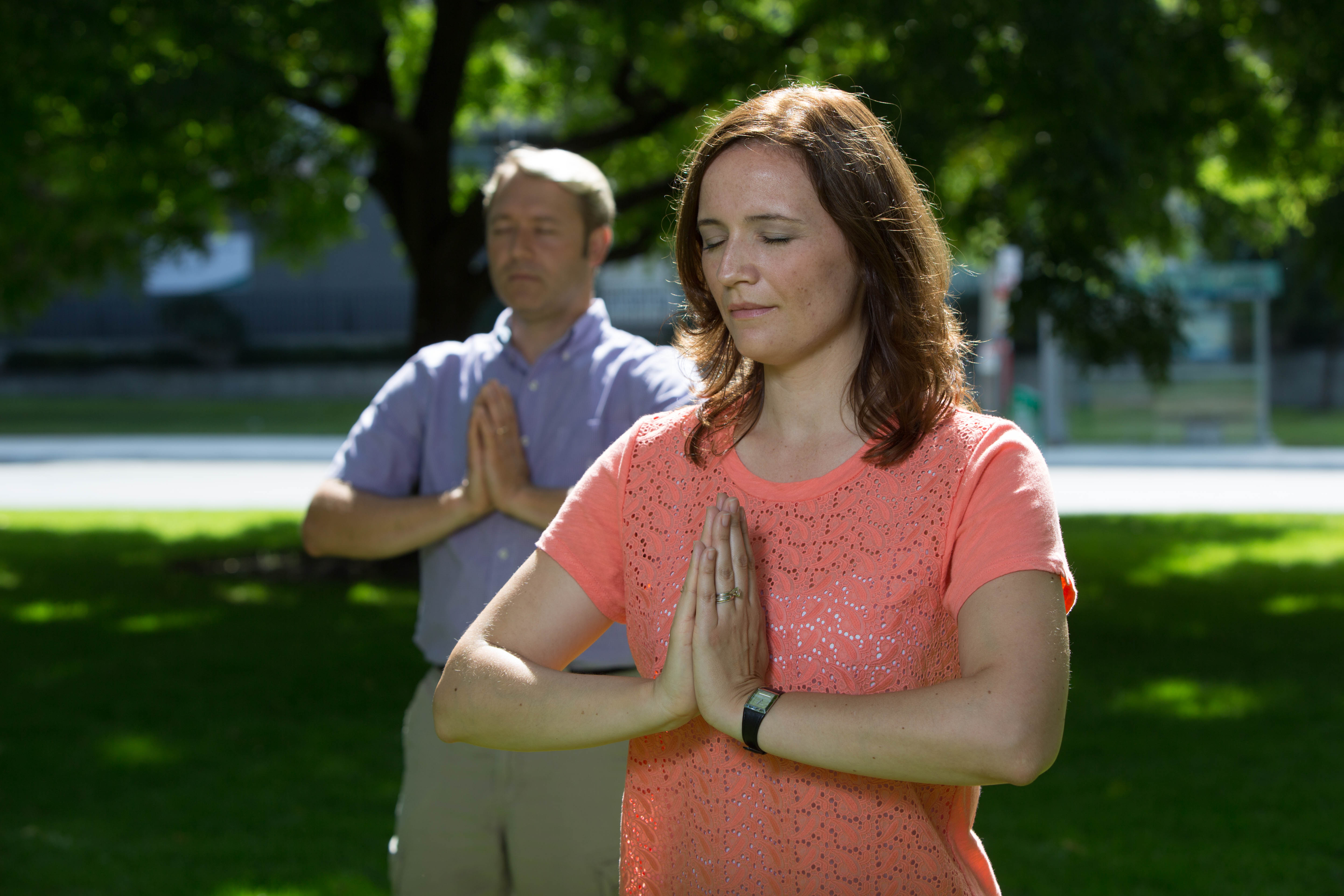 Falun Gong practitioners hold their hands in the "heshi" position while doing the Falun Gong exercises in a park in Canada.